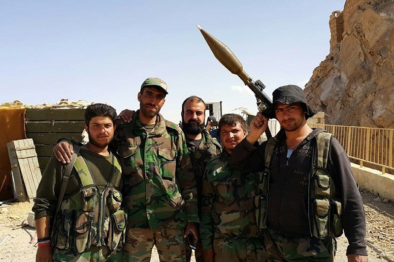 Liberation of Palmyra by Russia–Syria–Iran–Iraq coalition.